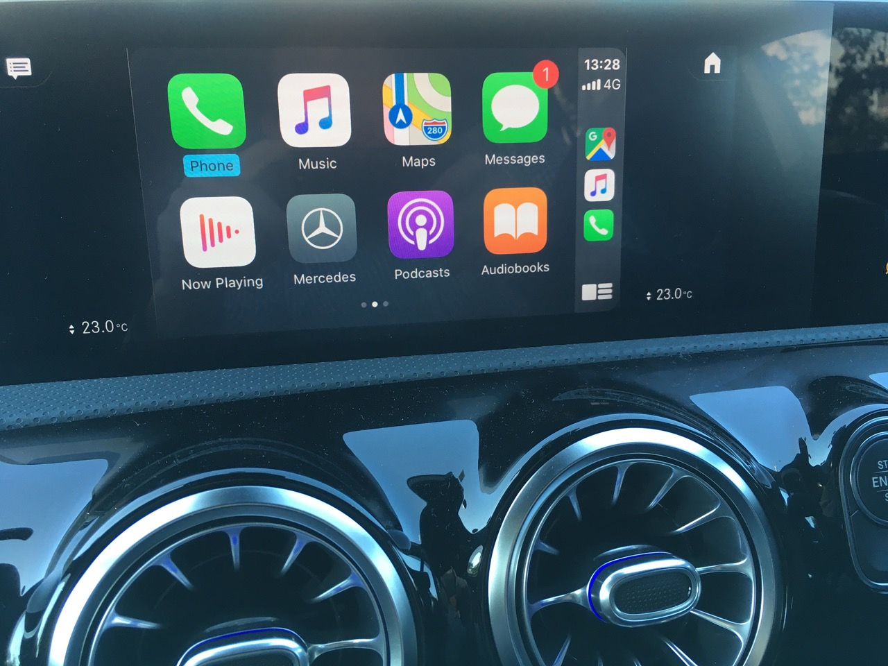 Apple CarPlay